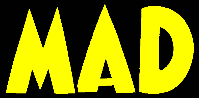 Original logo for the Mad comic book before it became a magazine. Taken from issue #3 (January–February 1953)